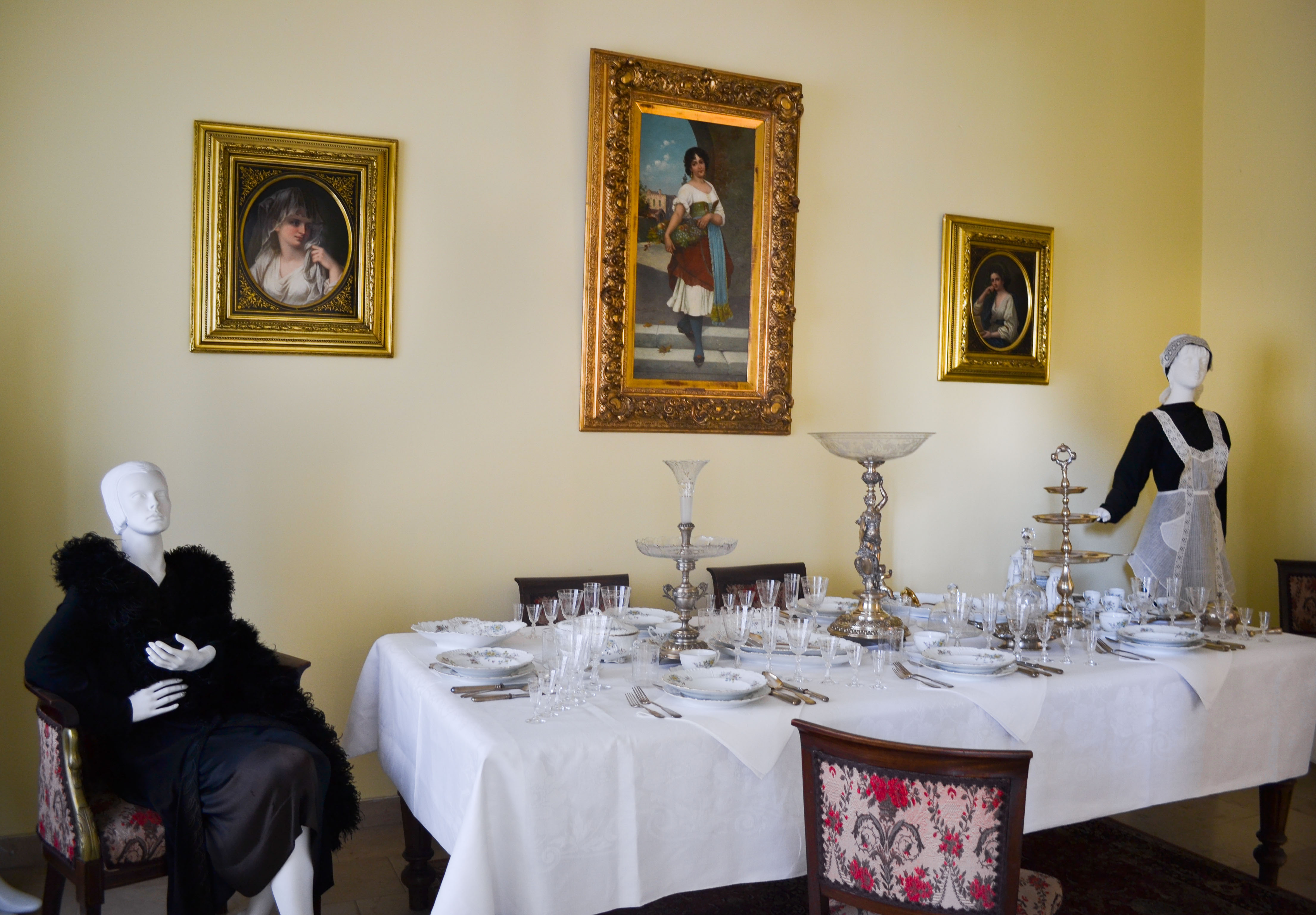 Pinno Family Collection, Jacek Malczewski Museum in Radom, Poland